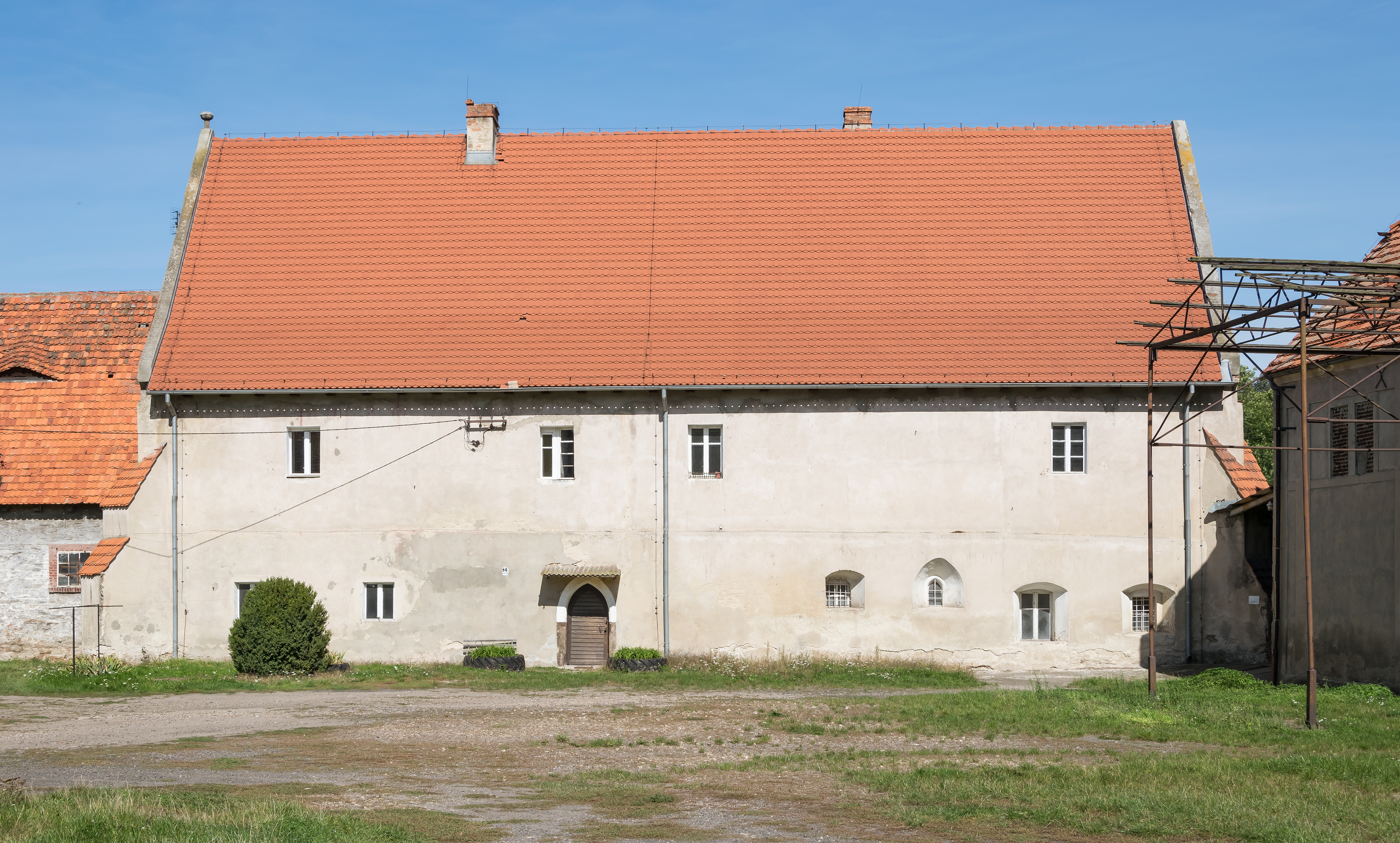 Former servants house in Henryków